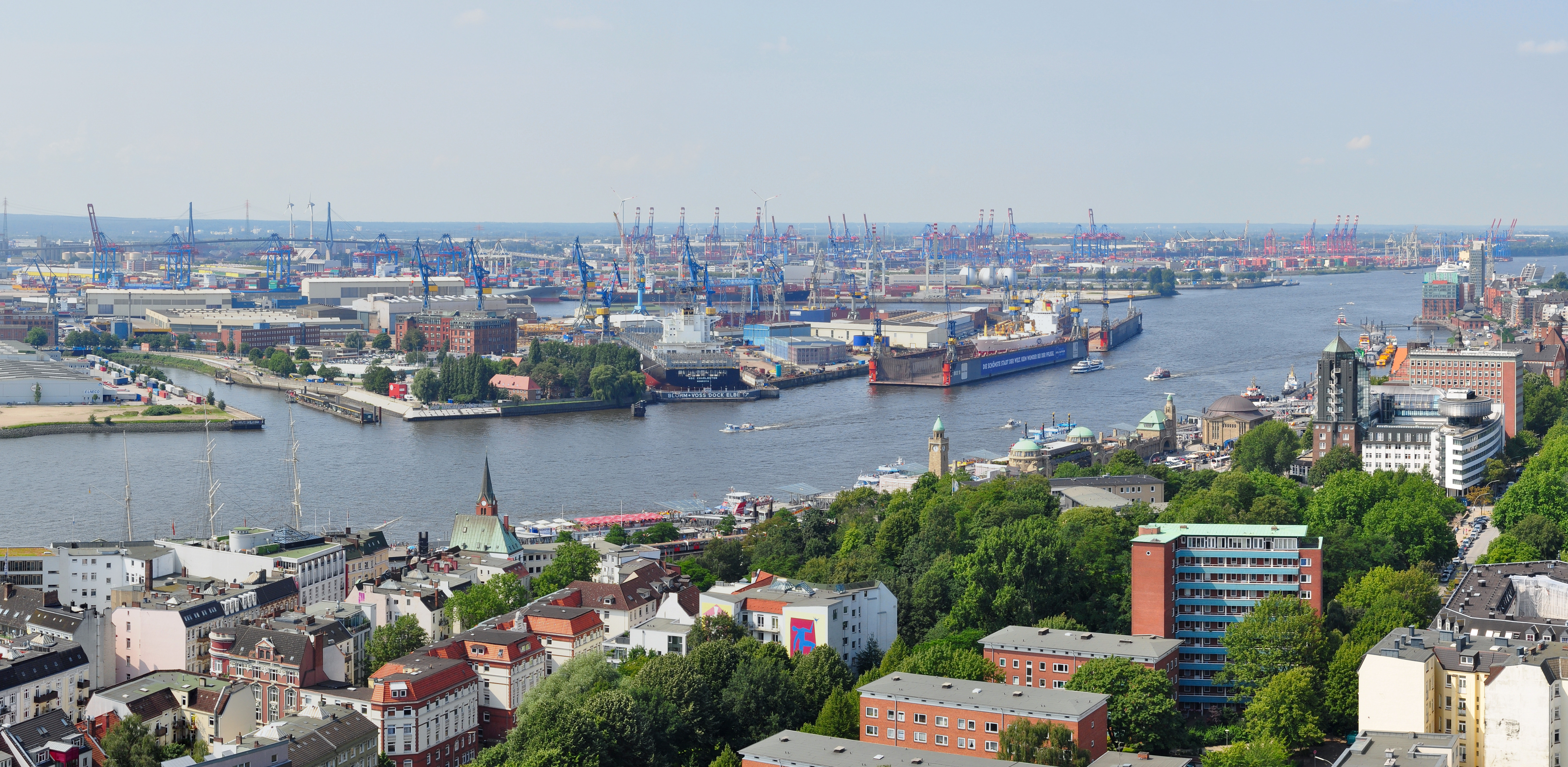 panoramic view from the observation deck of the church St. Michaelis ("Michel") (106 m high) showing the Port of Hamburg